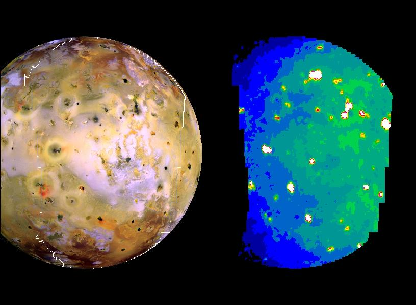 Nine previously unknown volcanoes have been discovered from this infrared image of Jupiter's moon Io, acquired by NASA's Galileo spacecraft on Oct. 16, 2001. The infrared image, on the right, serves as a thermal map to a section of Io's surface from pole to pole. An image from Galileo's camera showing the same face of Io (left) is included for correlating the heat-sensing infrared data with geological features apparent in visible wavelengths. The infrared image uses false color to portray the intensity with which the surface glows at the invisible wavelength of 5 microns, as observed by Galileo's near infrared mapping spectrometer instrument. White, reds and yellows indicate hotter regions; blues are cold. The resolution varies from 24 to 39 kilometers (15 to 24 miles) per picture element. Some of the hot spots visible in this image were not seen in a similar infrared image taken just 10 weeks earlier of an overlapping section of Io. Three sites of major activity in the images are Prometheus, which is a bright spot at center left; Amirani, which is an elongated feature in the upper right; and the site where a giant plume was erupting in August, which is the bright spot near the top of the image. The Jet Propulsion Laboratory, a division of the California Institute of Technology in Pasadena, manages the Galileo mission for NASA's Office of Space Science, Washington, D.C. Additional information about Galileo and its discoveries is available on the Galileo mission home page at .